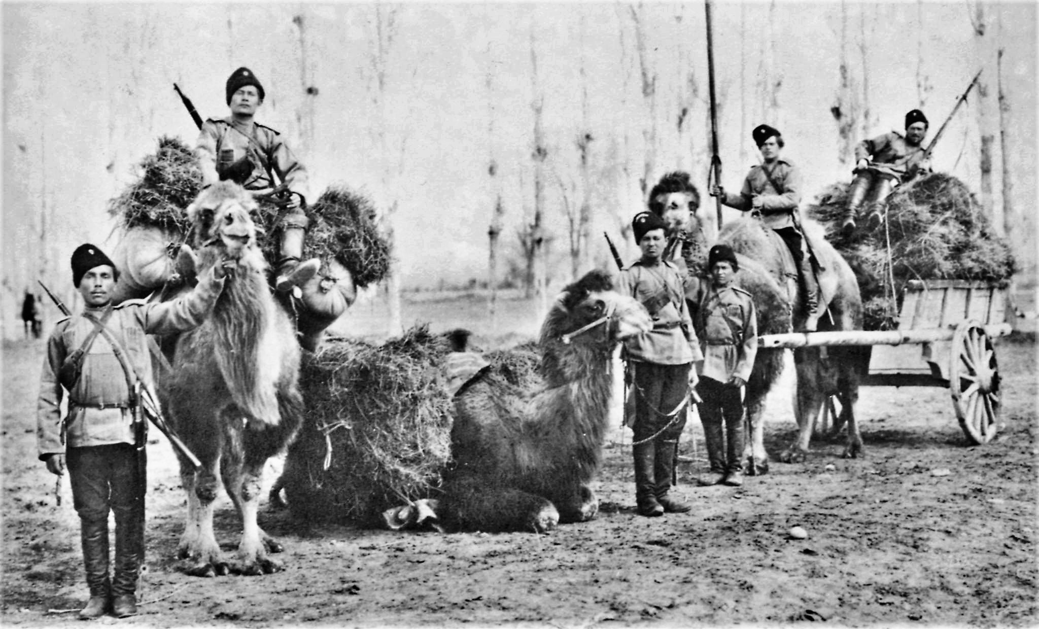 Orenburg cossacks with camels, 2nd half of the XIX cent.